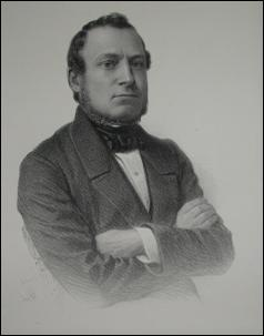 Charles van Renynghe (1803-1871)